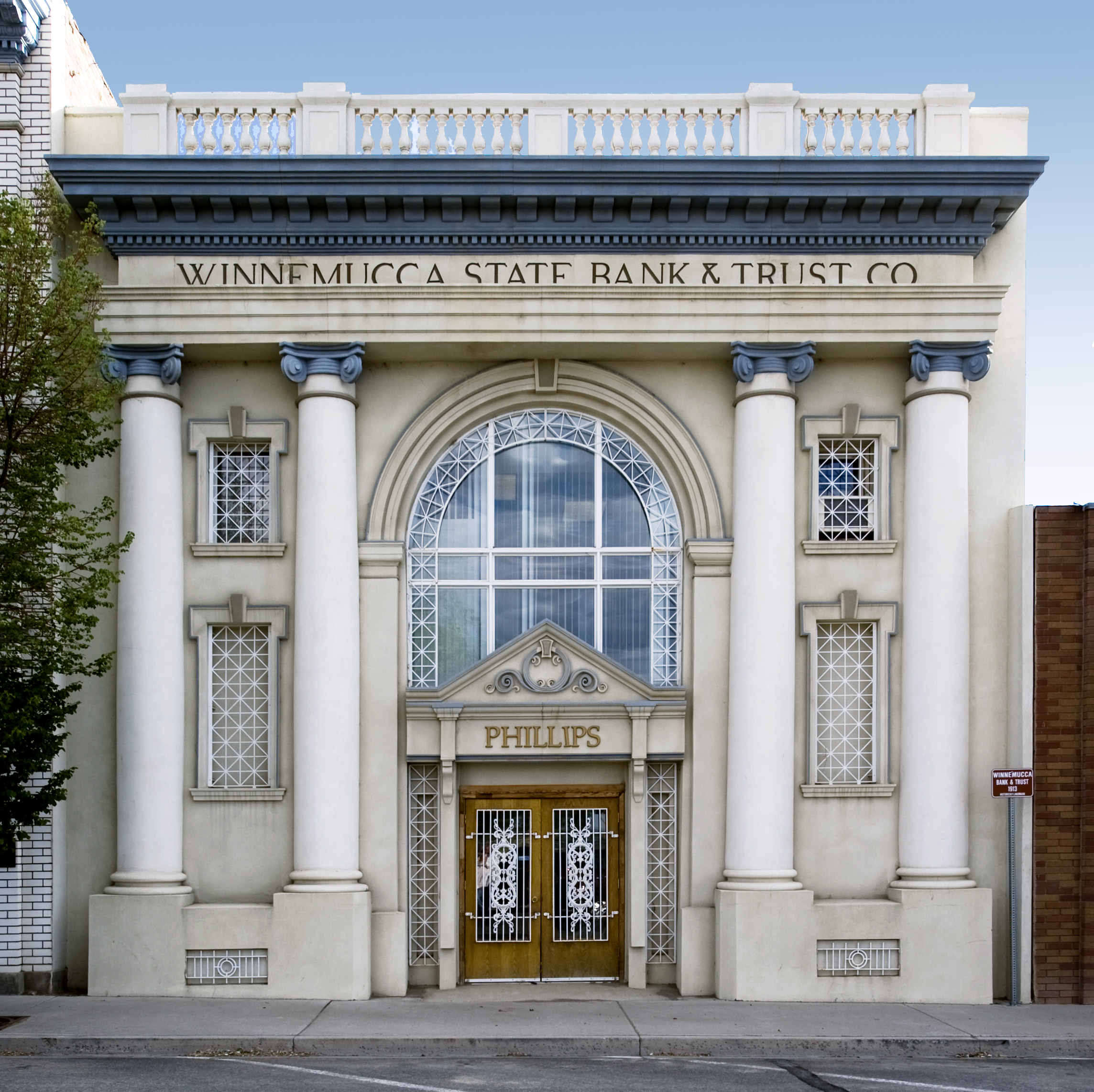 Winnemucca State Bank and Trust Company Building in Humboldt County, Nevada.